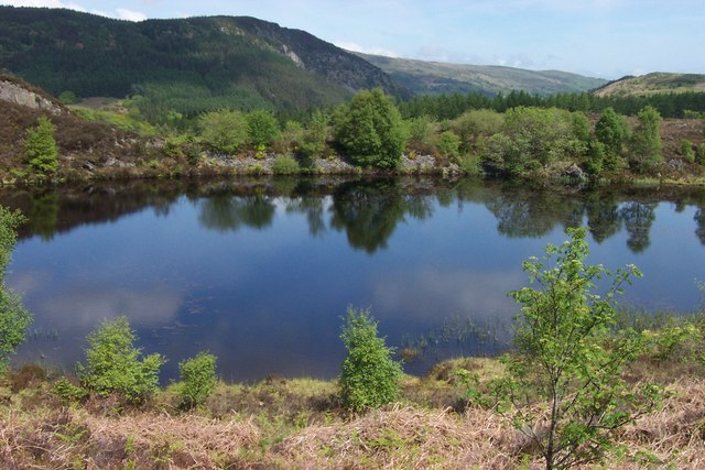 Cors Bodgynydd Reservoir. This little reservoir at grid reference SH 76500 59660 lies Northeast of Llyn Bodgynydd and is in a Nature Reserve area.